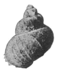 Photo of an abapertural view of the shell of Teratobaikalia macrostoma. Locality: Byrkin.